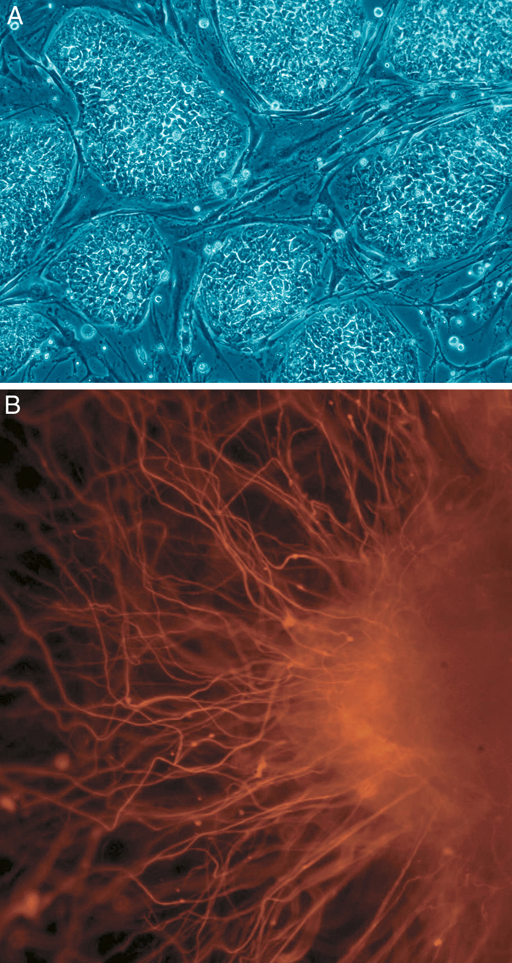 (A) Human Embryonic Stem Cells (hESCs); (B) neurons derived from hESCs.